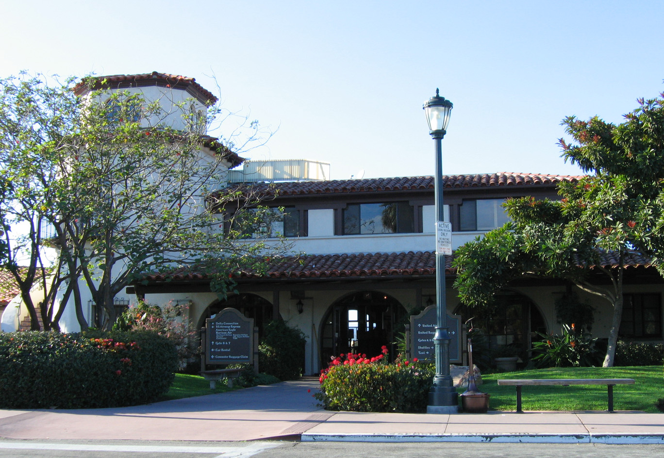 Exterior of commercial passenger terminal at Santa Barbara Airport.